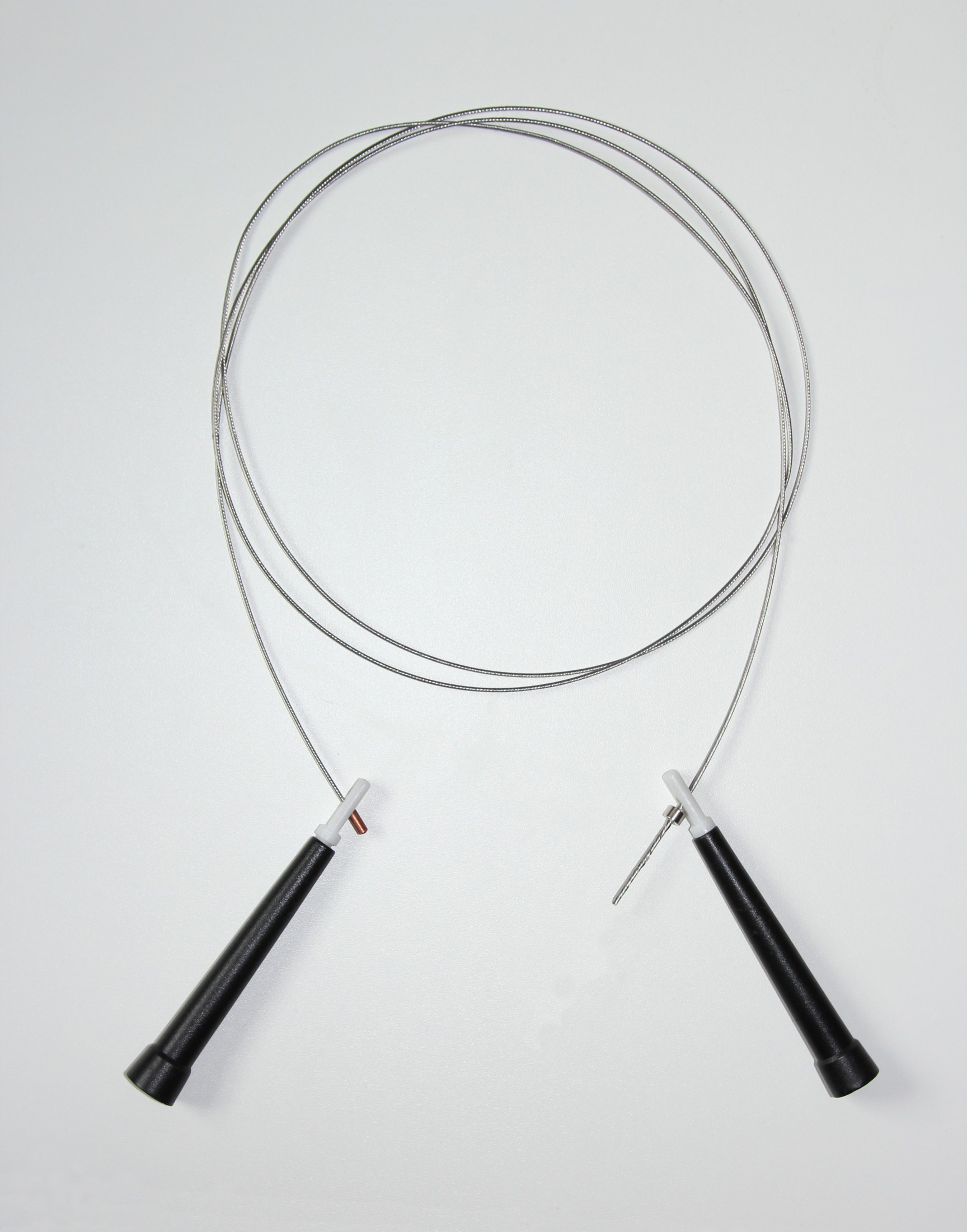 Uncoated stainless steel wire speed rope